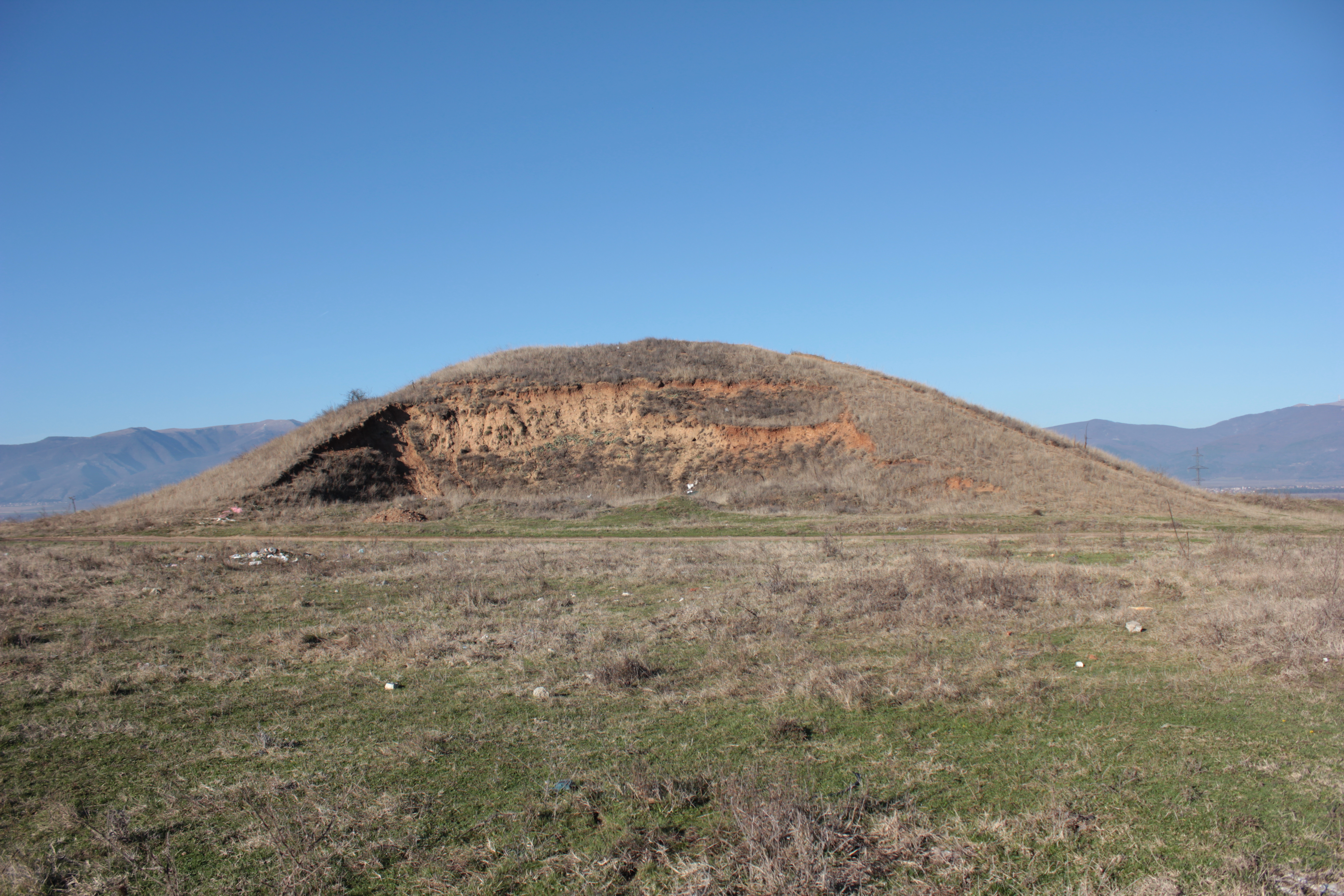 The Big Mound of Koprinka, Bulgaria